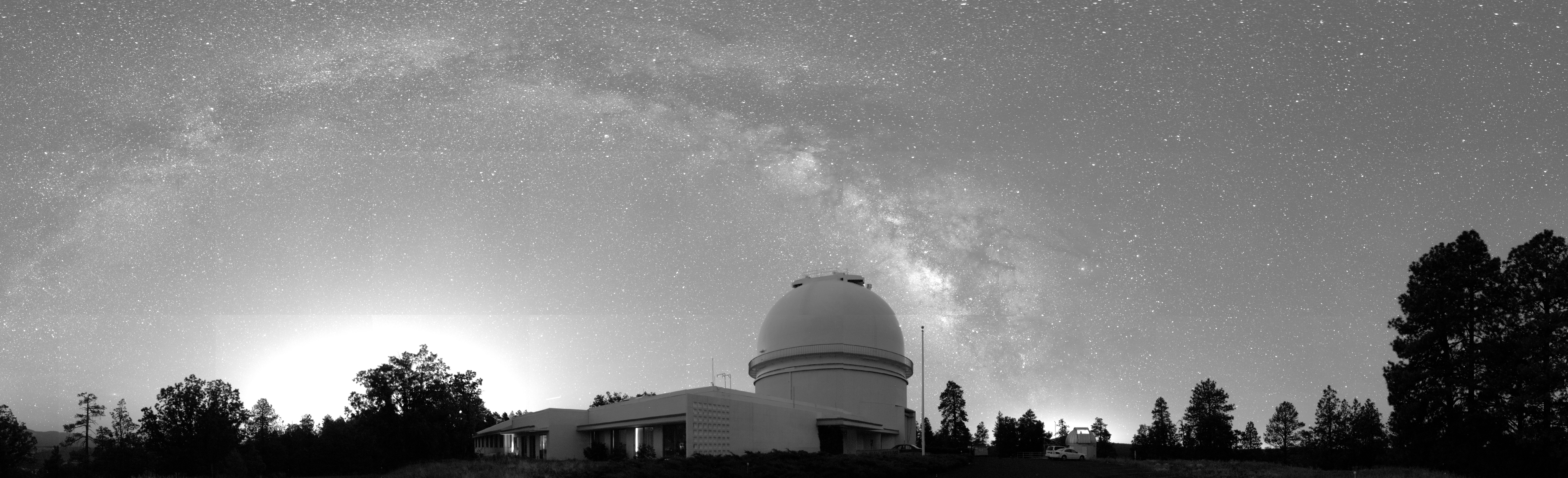 high-resolution panoramic of NOFS in operation west of Flagstaff AZ